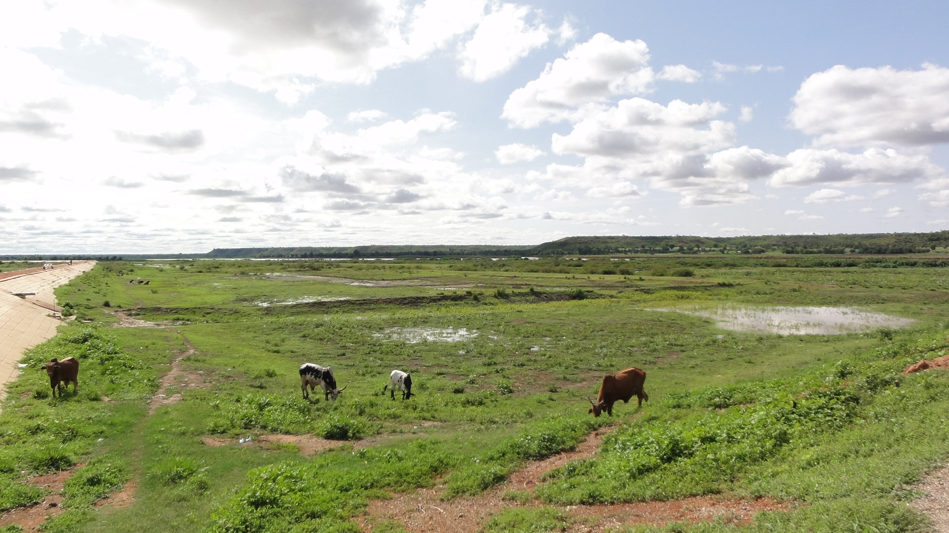 Rice cultivation in Benin